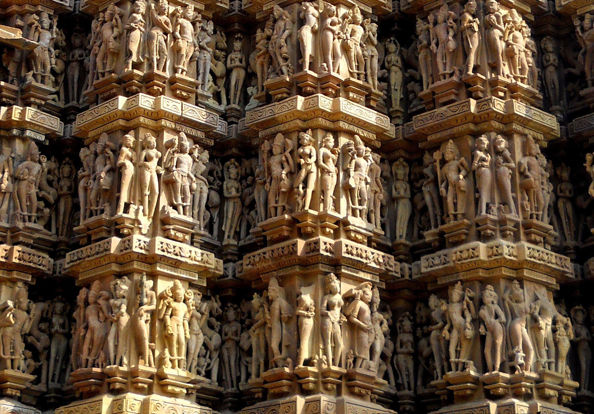 Khajuraho temple Maddyapradesh